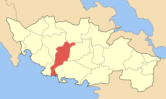 Locator map of Koroneias municipality (Δήμος Κορώνειας) at Voiotias perfecture, Greece.